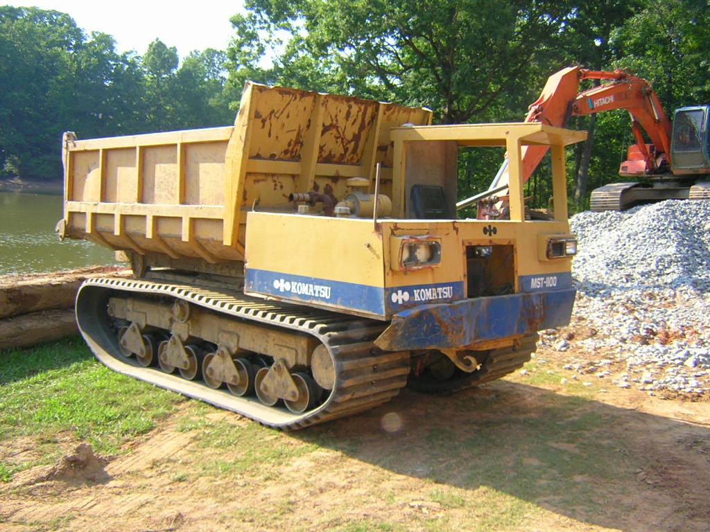 A Komatsu MST-1100 involved in a dredging operation.